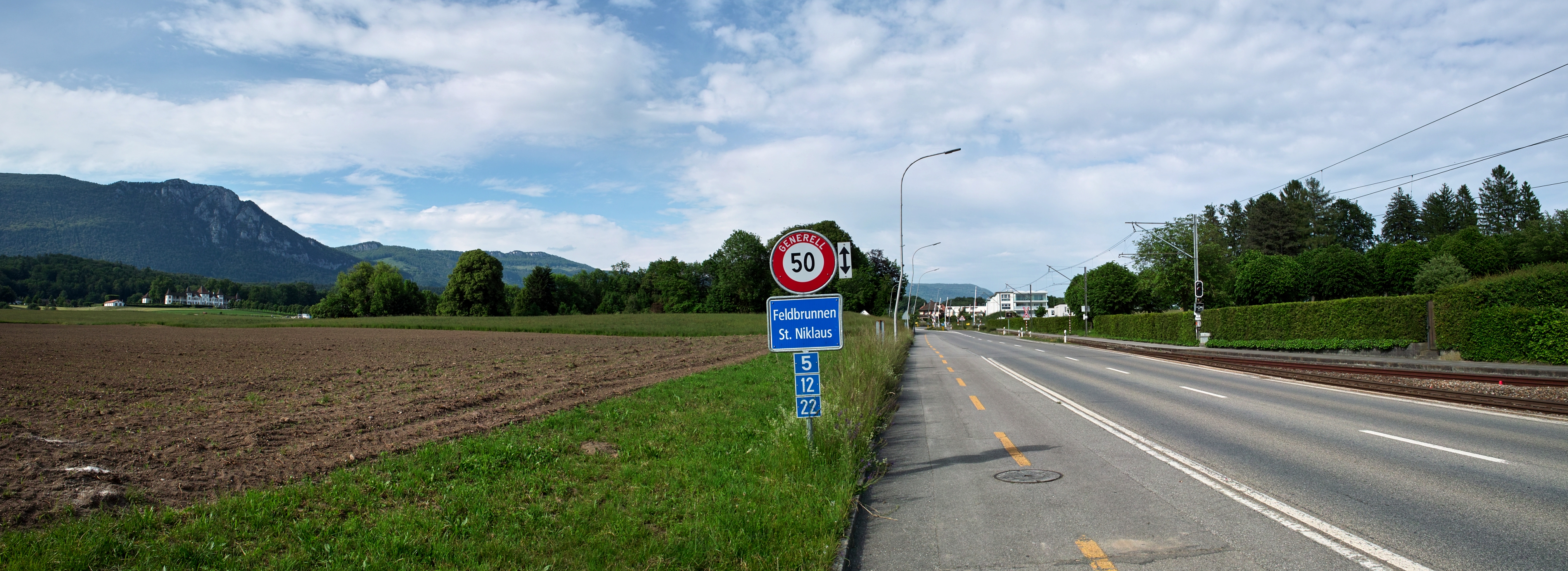 Panorama of entrance into Feldbrunnen-St. Niklaus from Solothurn with town sign.